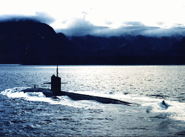 USS Portsmouth (SSN-707)